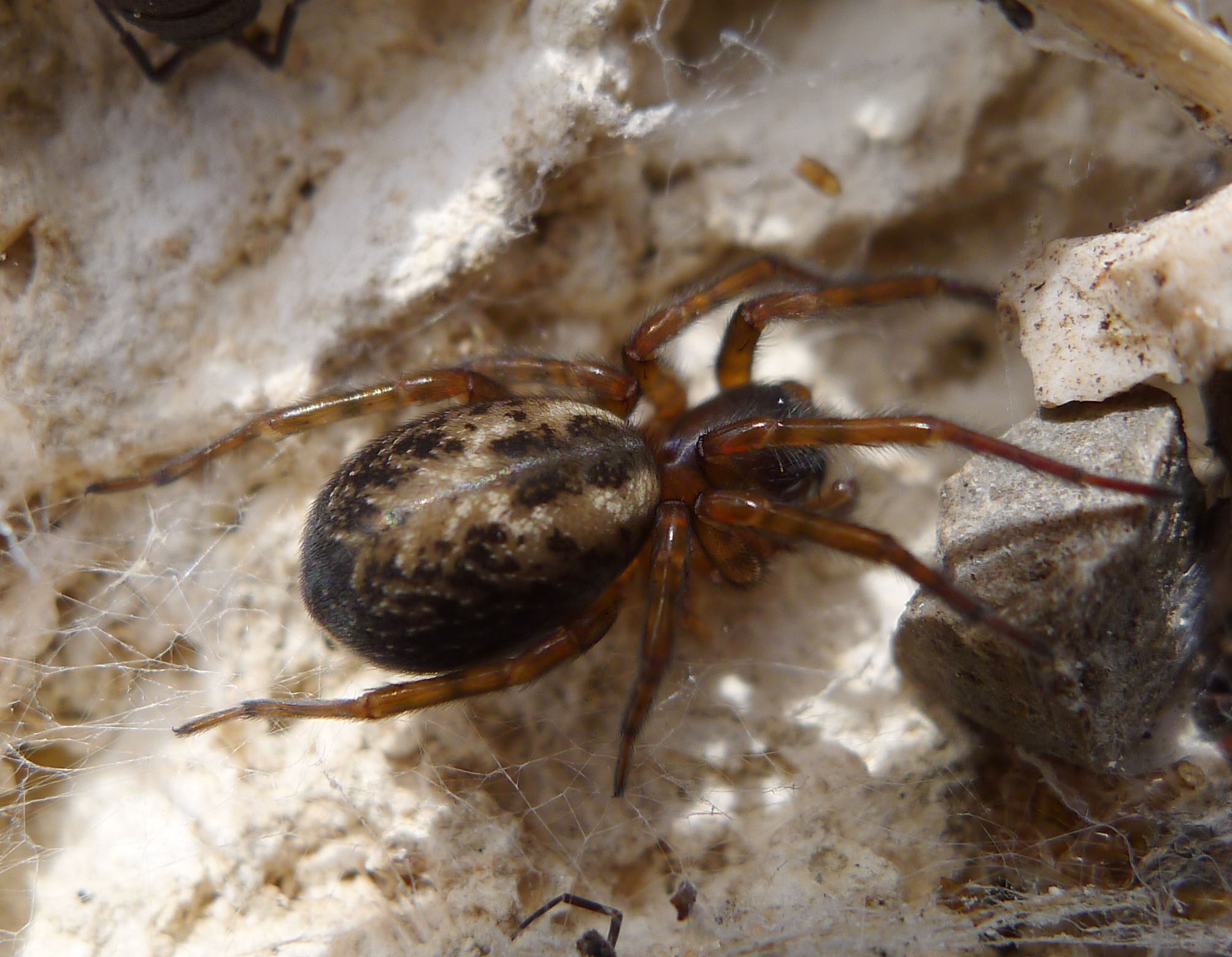 Cradley, Malvern Worcs SO7347